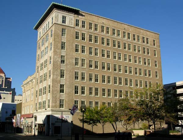 Boxley Building listed on the National Register of Historic Places in downtown Roanoke, Virginia, USA